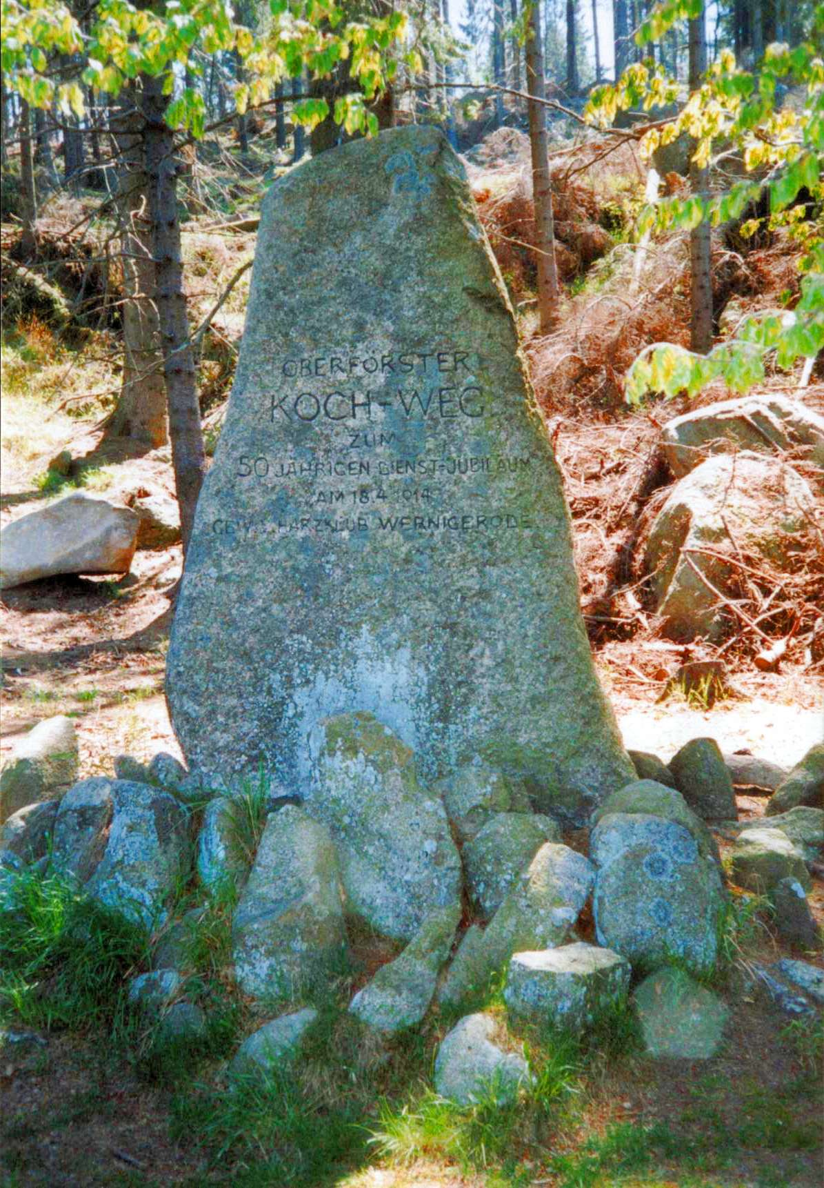 Oberförster Koch Way Memorial in the Harz mountains of Germany near Plessenburg